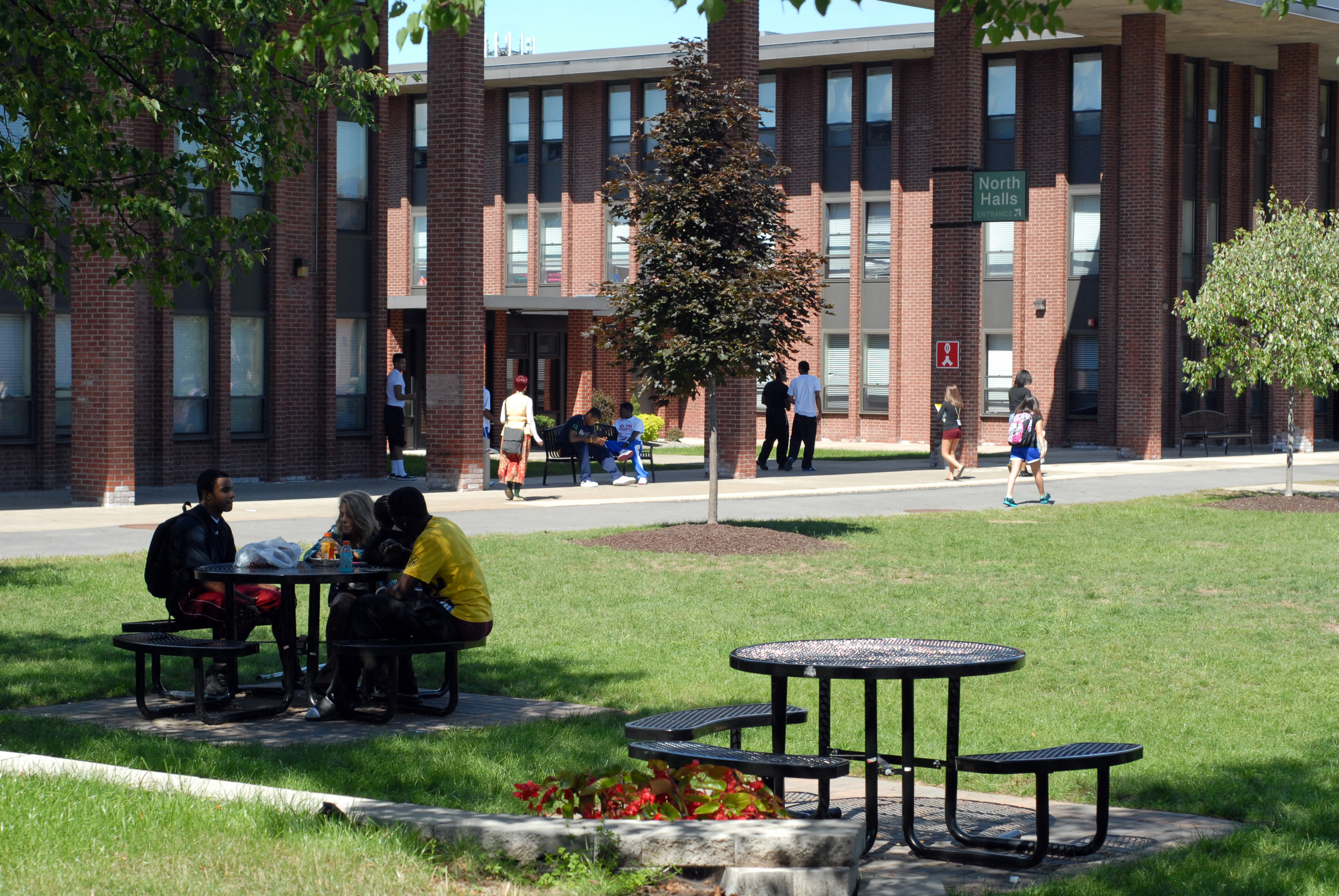 Exterior shot of some of MVCC's Residence Halls; North Halls.